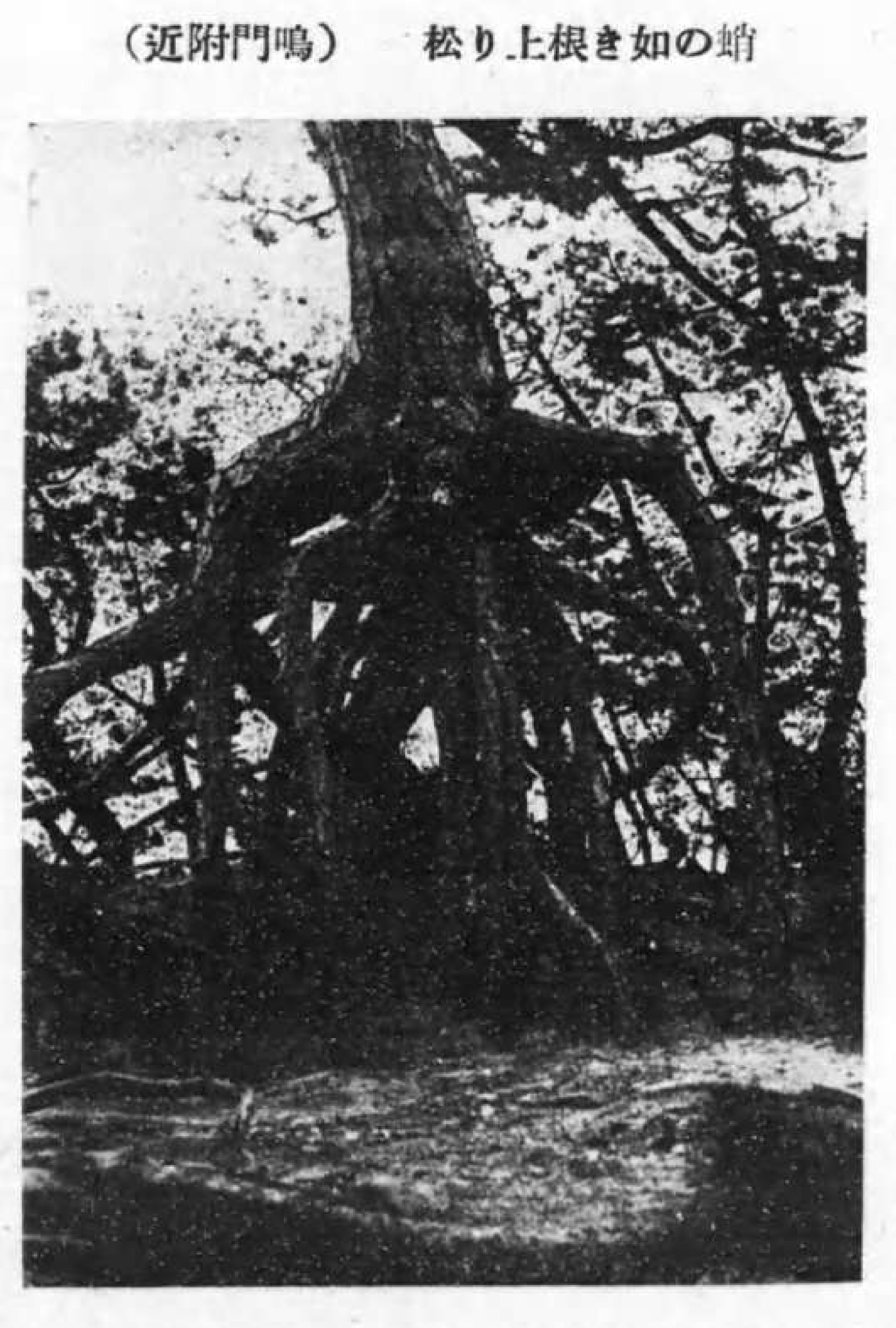 Root stilted black pine at Naruto, Tokushima prefecture, Japan.